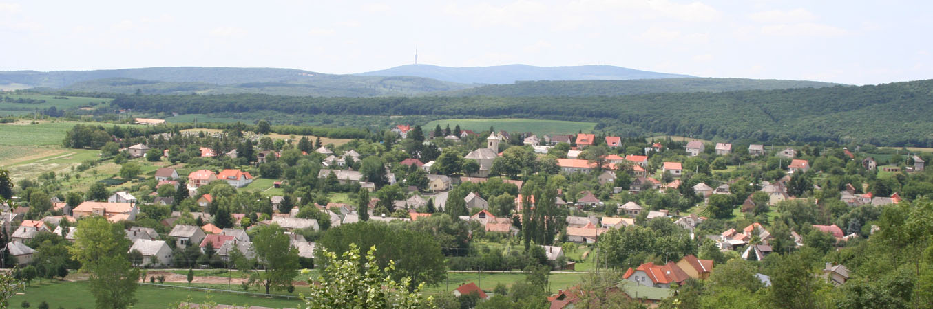 Panorama of Hosszúhetény; Hungary